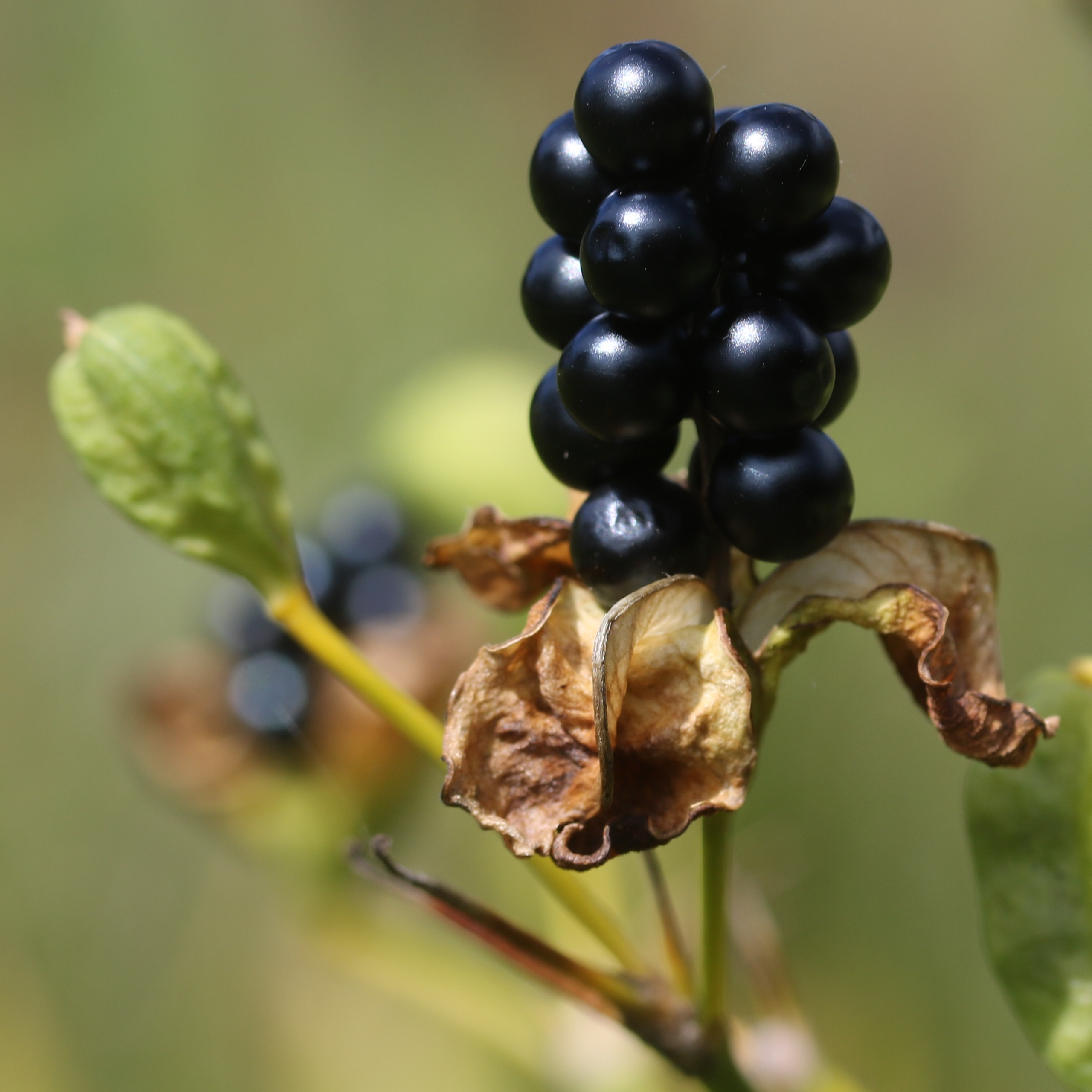 Iris domestica in Mount Ibuki, Maibara, Shiga Prefecture, Japan.